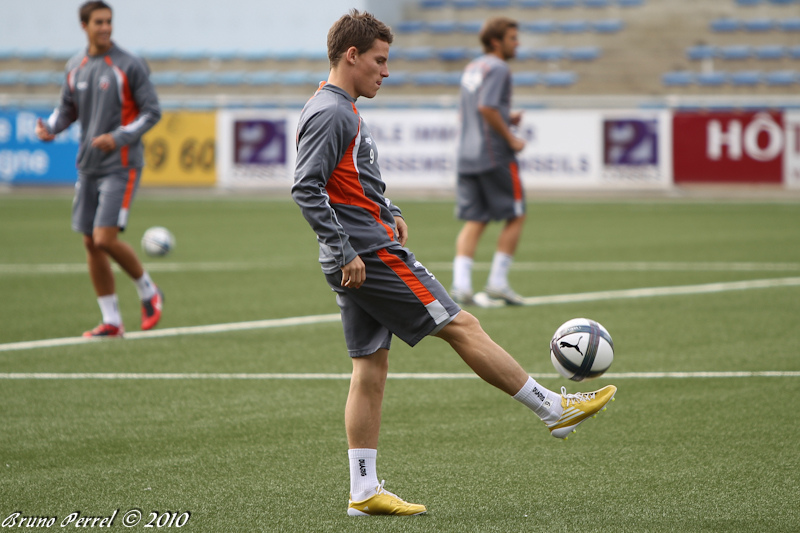 Kévin Gameiro, player from the FC Lorient during a practice in september 2010